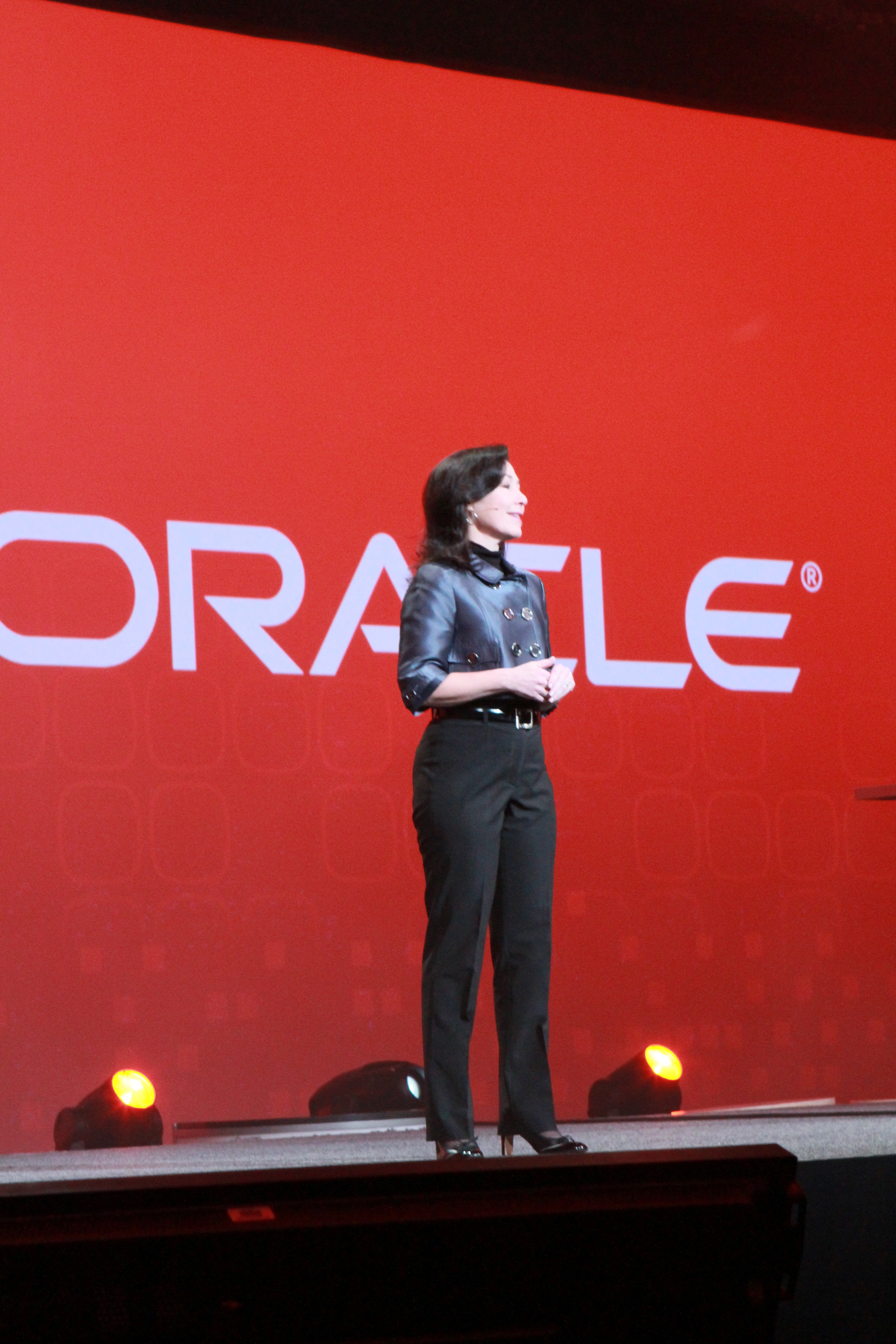 Safra Catz, Oracle President